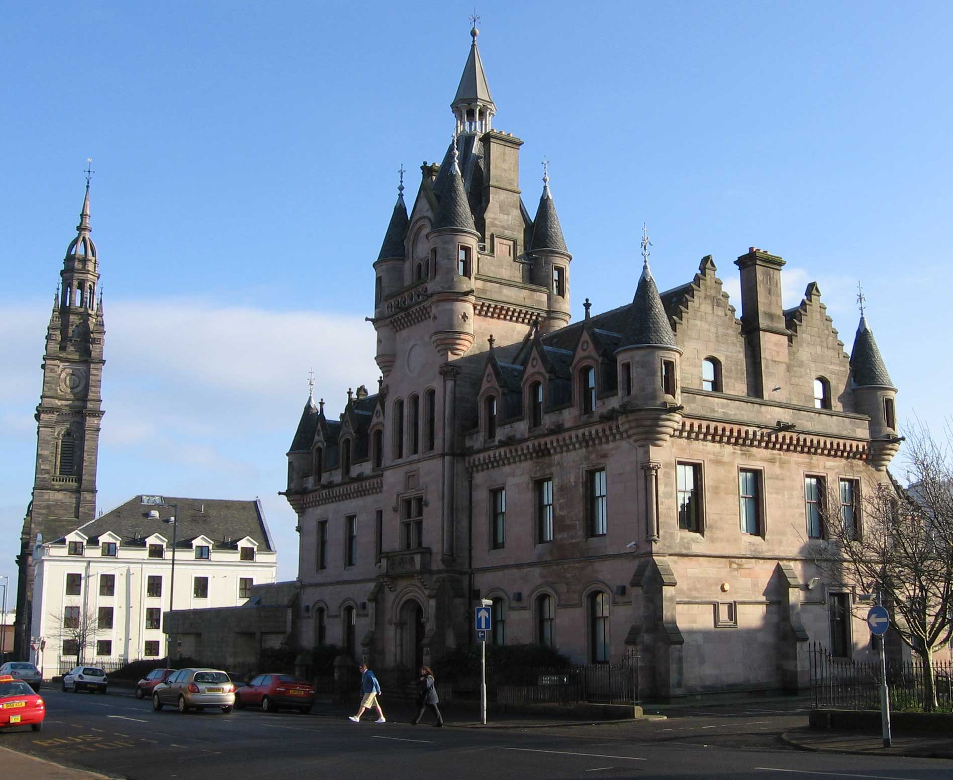 Greenock Sheriff Court, a fanciful example of the Scottish baronial style. photograph taken in February 2006 by User:Dave souza. Any re-use to contain this licence notice and to attribute the work to User:Dave souza at Wikipedia.